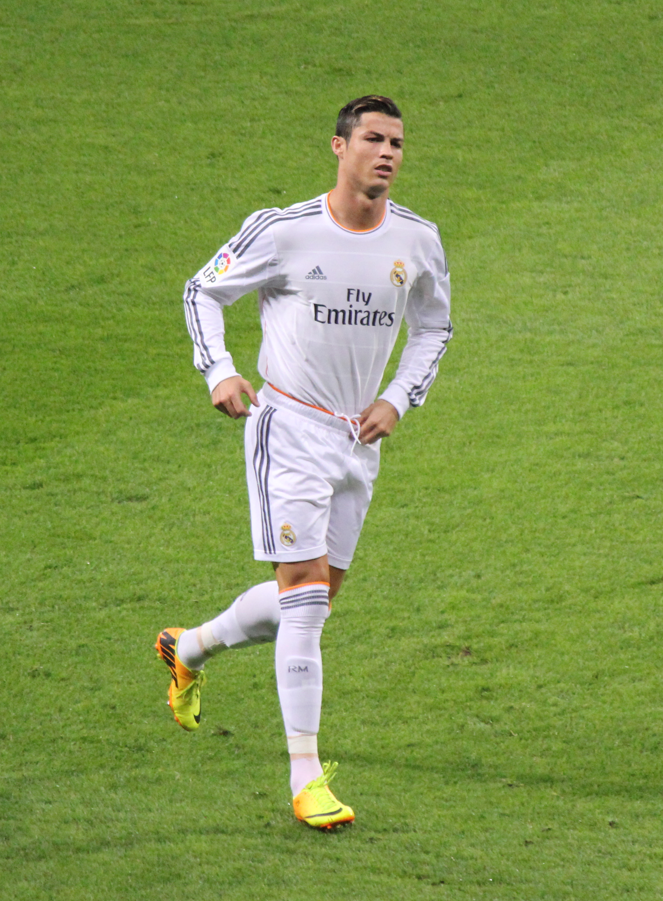 Picture from 28 Septemeber game between Real Madrid and Atlético Madrid.